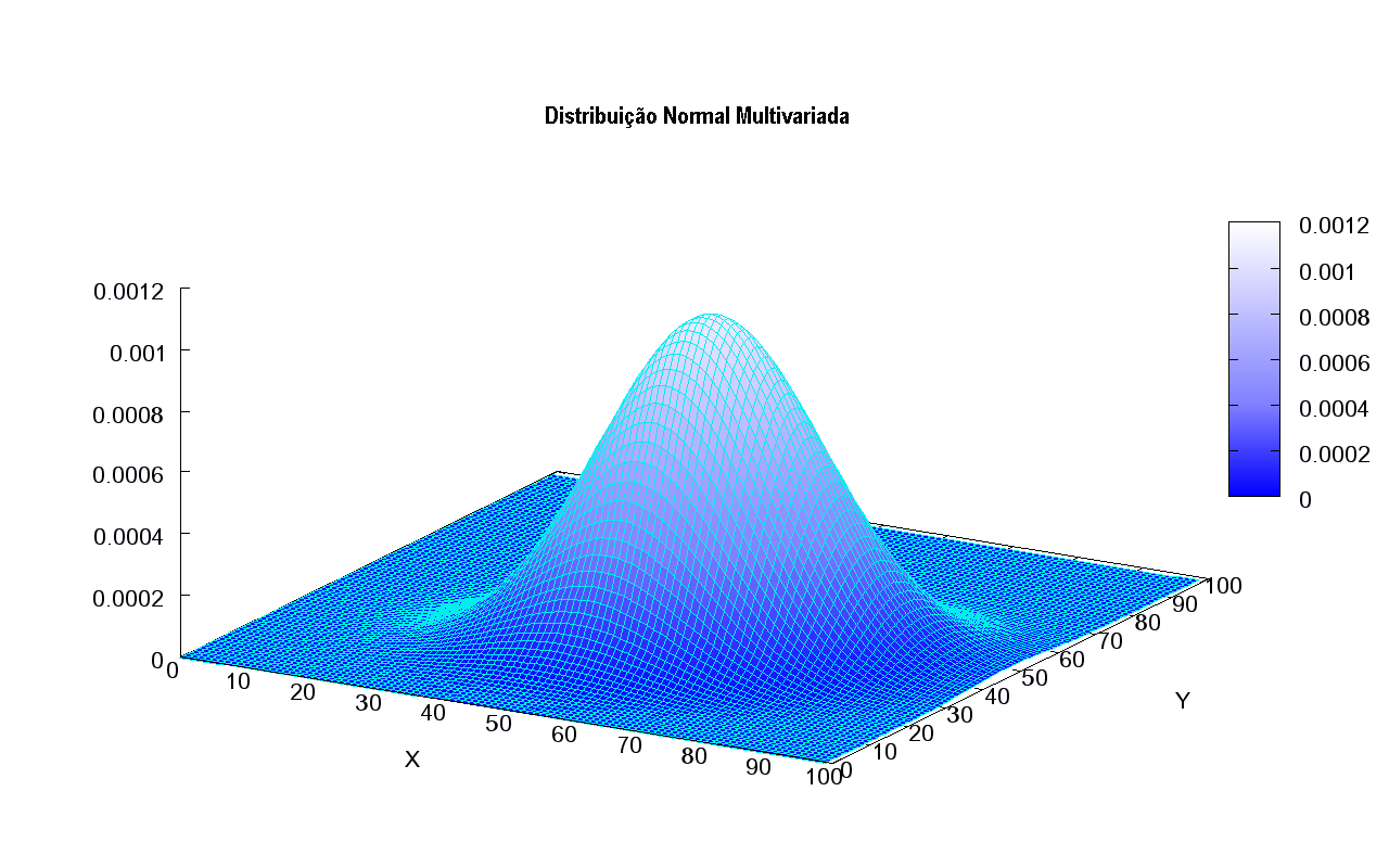 Probability density function for the multivariate normal distribution.